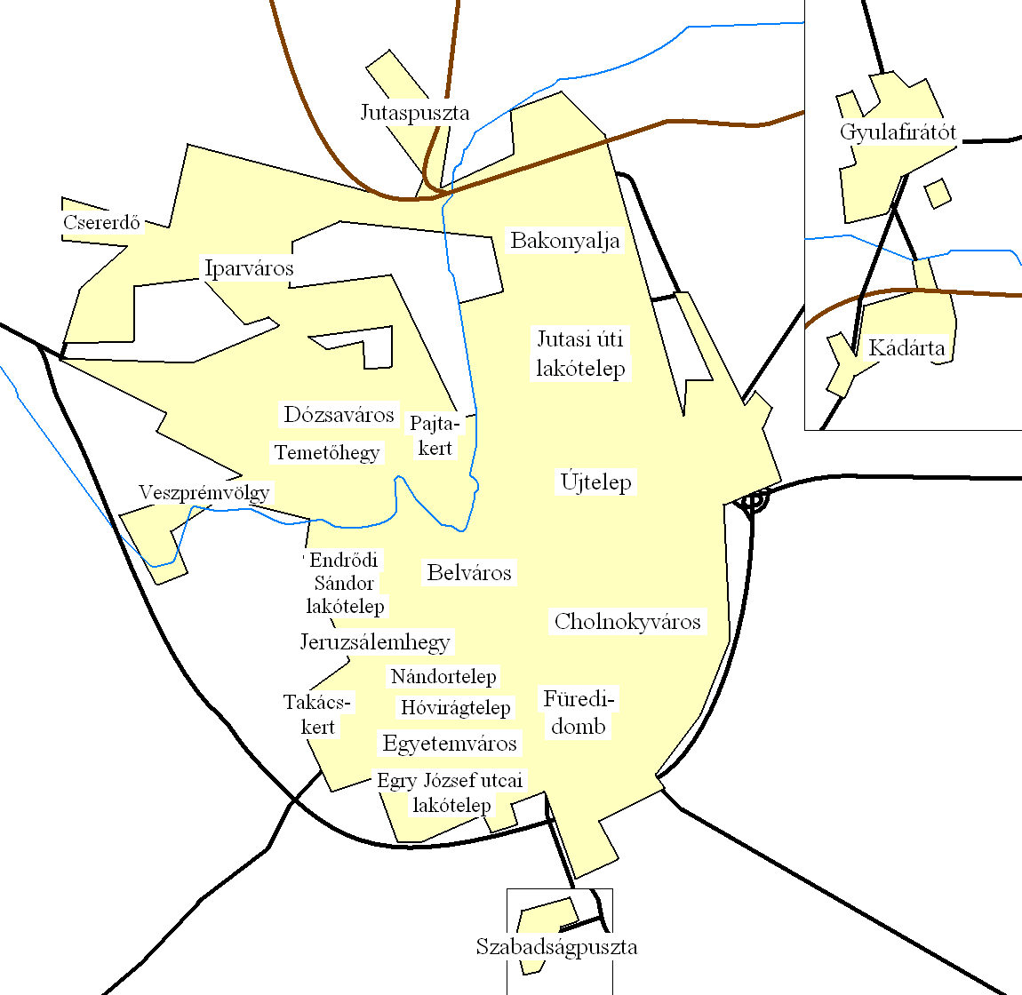 Stylized map of Veszprém with the names of the town parts